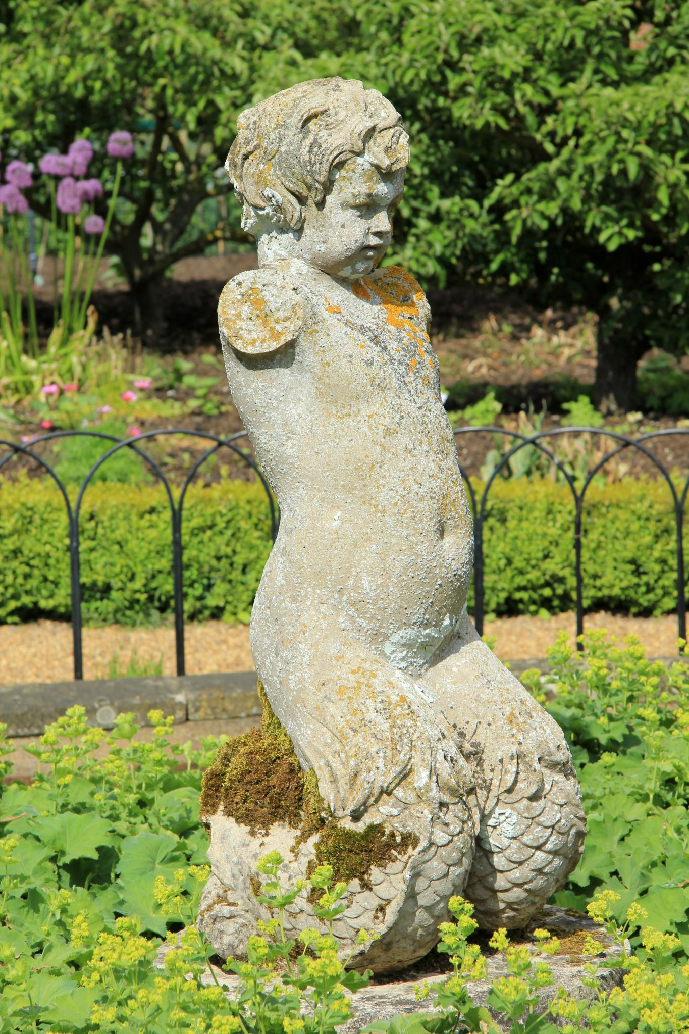 One of the most elegant country houses in East Anglia. Truly a hidden gem, the Hall is a place of surprises and delights, a mixture of opulence and homeliness where each room has something to feed the imagination. Outside, the decorative and productive walled garden is a gardener's delight, providing fruit and vegetables for the restaurant, flowers for the hall and inspiration. The rolling landscape park with a lake, 211 hectares (520 acres) of woods and waymarked trails is a great place to explore the nature and wildlife on this bountiful estate. It boasts a fine gothic style library and a magnificent collection of Grand Tour paintings. The house, its contents, and estate was left to the National Trust by Robert Wyndham Ketton-Cremer, the last Squire of Felbrigg Hall, who died in 1969. The Walled Garden at Felbrigg Hall is widely renowned as one of East Anglia's finest. Get up close to the double borders and herb beds and really breathe in the scent of lavender, sage and mint. You can find a good many modern surprises within this traditionally laid out garden. A Summer of Celebration with Wallace and Gromit - Join us for a day of celebration to mark the Queen's Diamond Jubilee on Monday 4 June 2012. Come and enjoy a day of fun family films and activities. Throughout the day we will be showing a selection of Wallace & Gromit films on our big outdoor screen. Bring along chairs or a blanket and picnic and enjoy the show